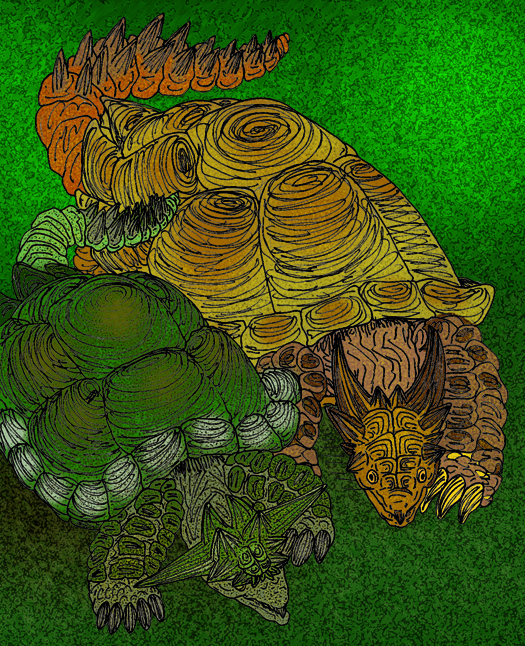 A comparison of the two best known meiolaniid turtles, Meiolania platyceps, and Ninjemys oweni, of Tertiary Queensland, Australia. (C) Stanton F. Fink